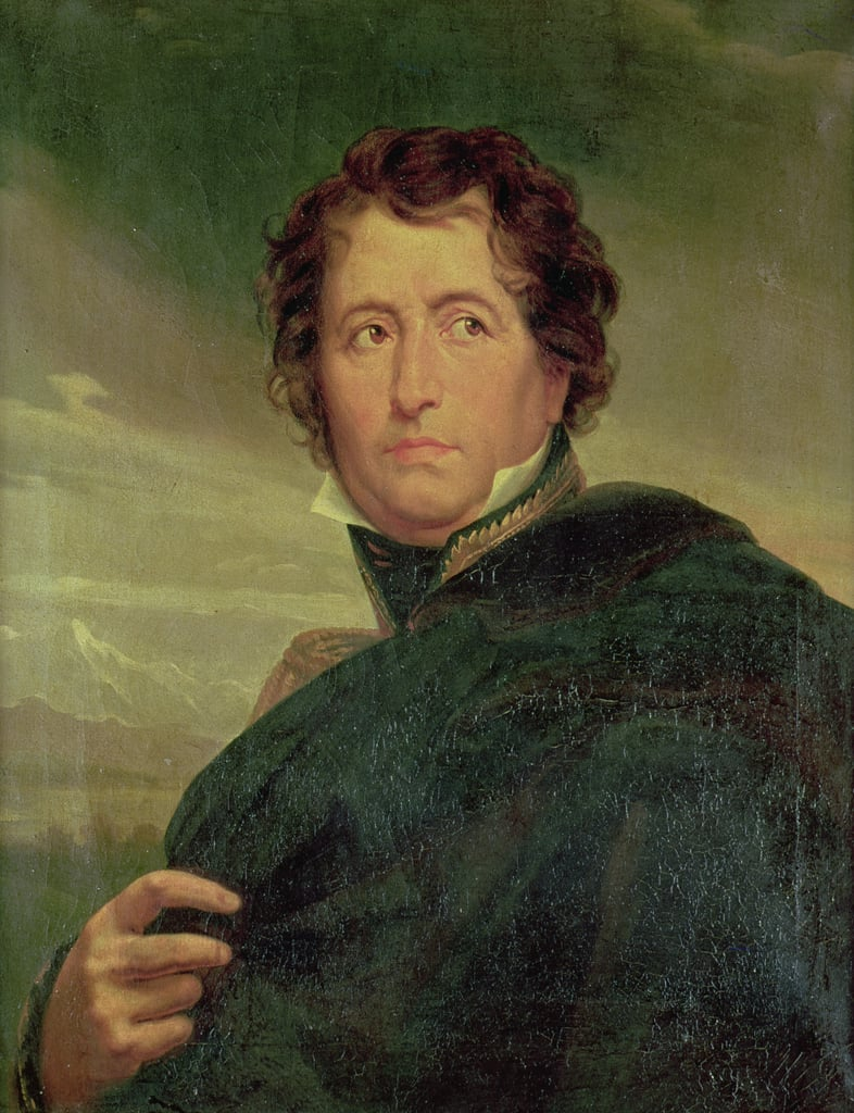 Marshall of France Nicolas Soult